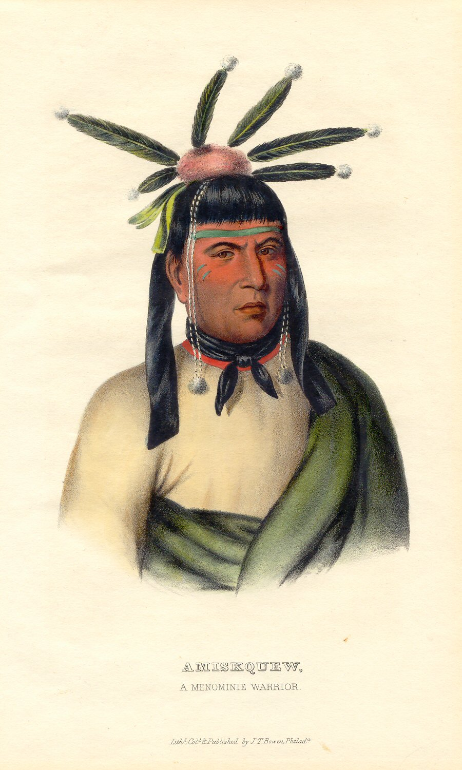 Picture of Amiskquew, a Menominee warrior, painted by Charles Bird King (1785-1862). Lithographed, colored and published ca. 1836-44 by J.T. Bowen, Philadelphia. SI.1990.002 H.10 1/4" X W.6 3/8" (octavo)